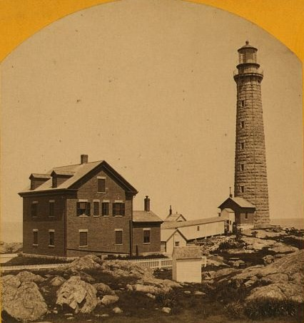 Cape Ann Twin Lighthouses, Essex County, Massachusetts. Southern Thacher Island lighthouse with adjacent keeper's house.